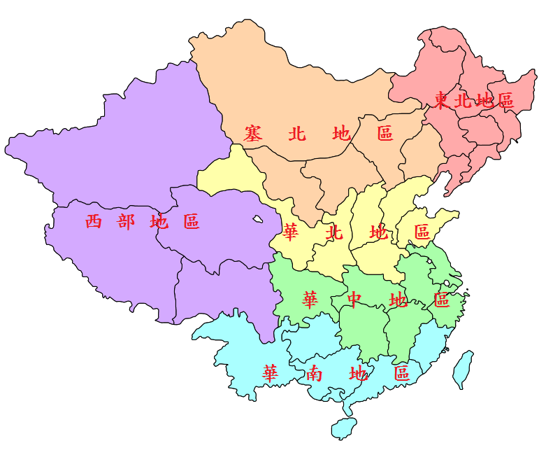 The 6 Geographical Regions of the Republic of China (Mainland Era).